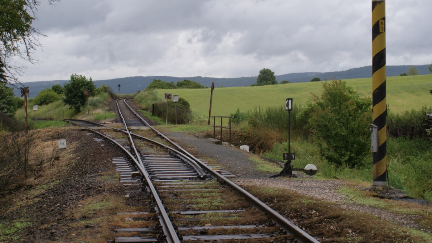 Switchback station Liteň on railway line 172 from Zadní Třebaň to Lochovice, Czech Republic